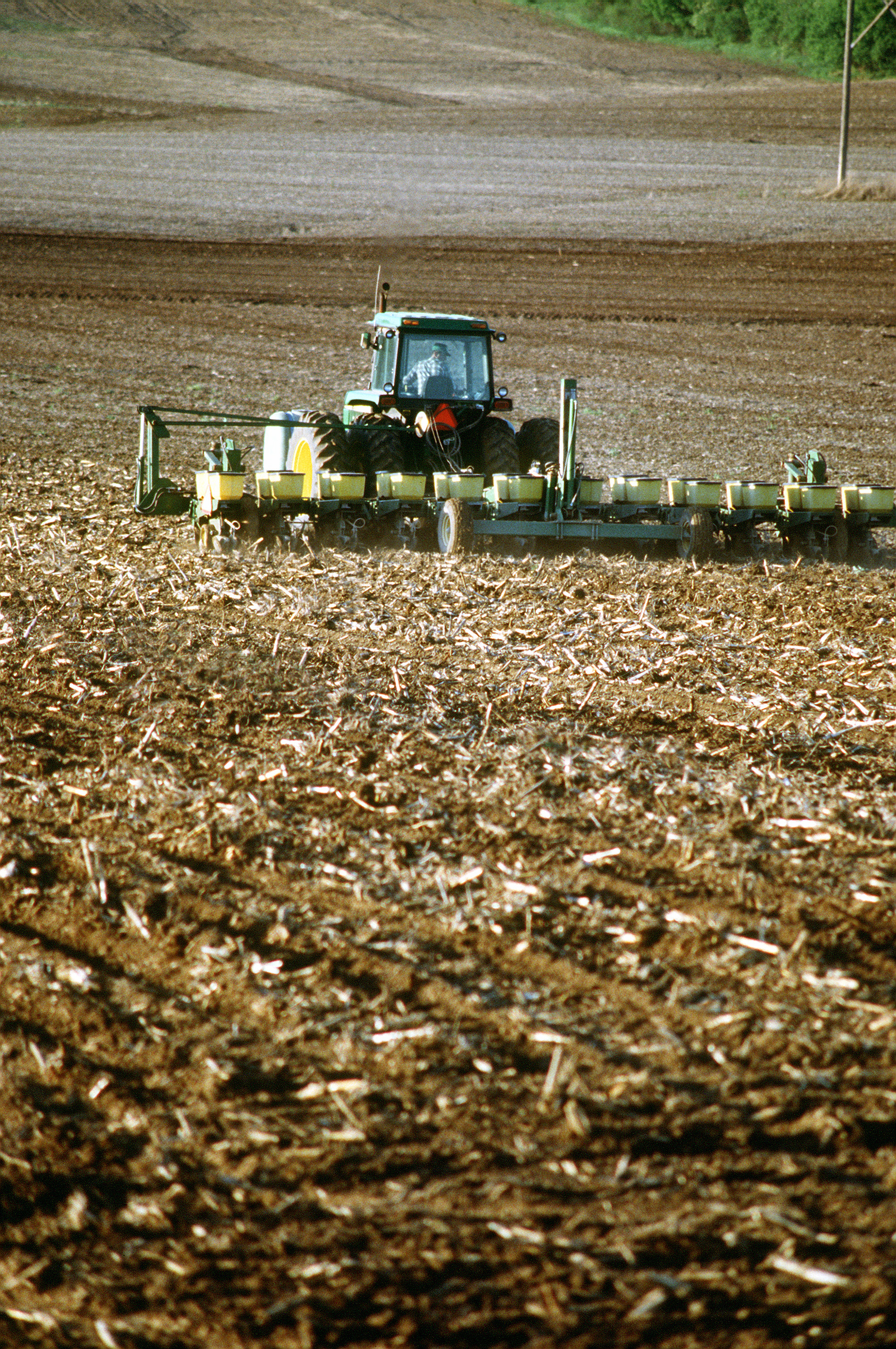 A midwestern farmer tills and fertilizes his land near Omaha, Nebraska.